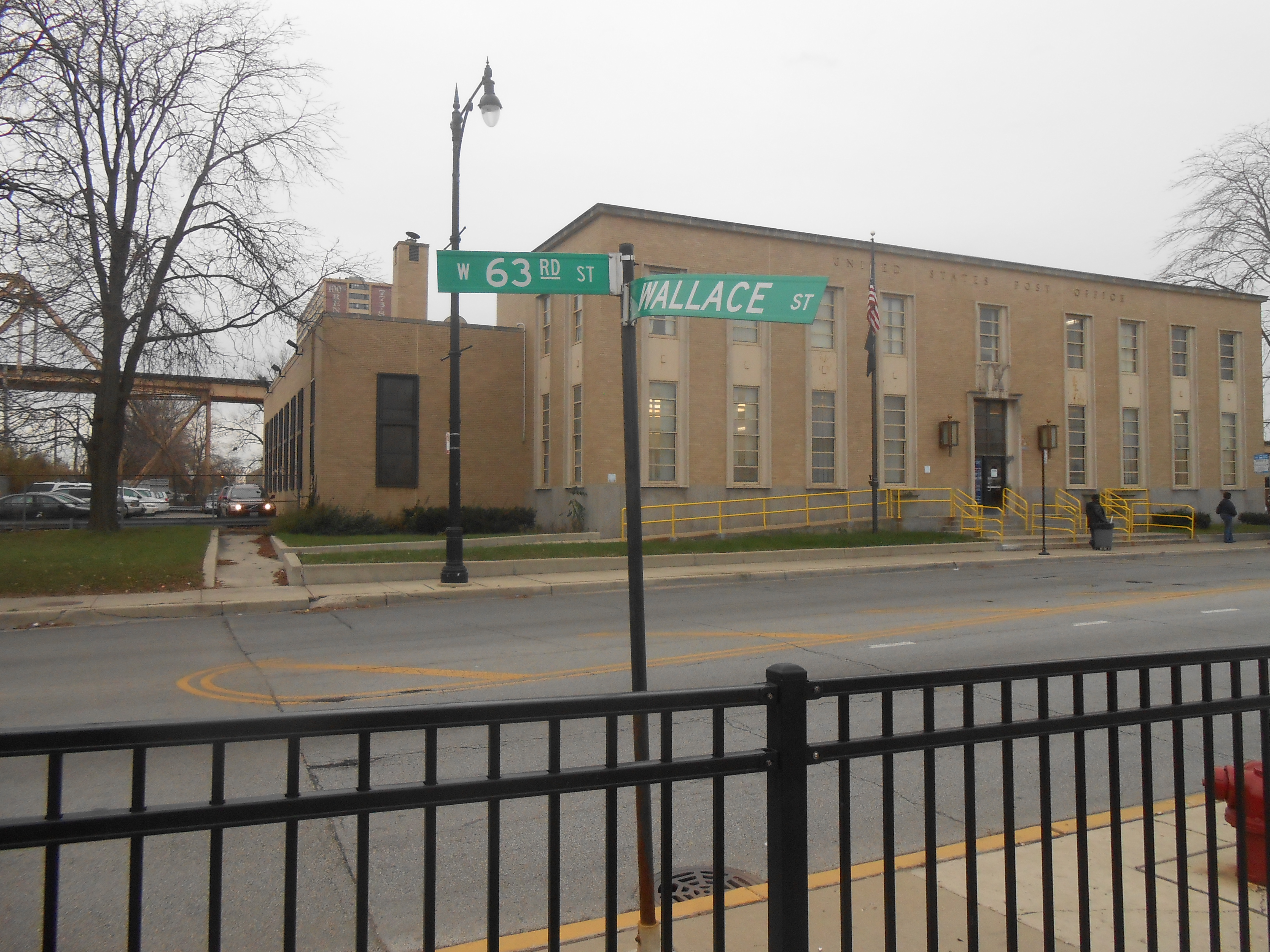 The U. S. Post Office of the Englewood neighborhood, 611 West 63rd Street, Chicago, IL 60621, partially overlapping the site of H. H. Holmes' Murder Castle demolished in 1938 (the plot of the left section of the current building and further to the left).